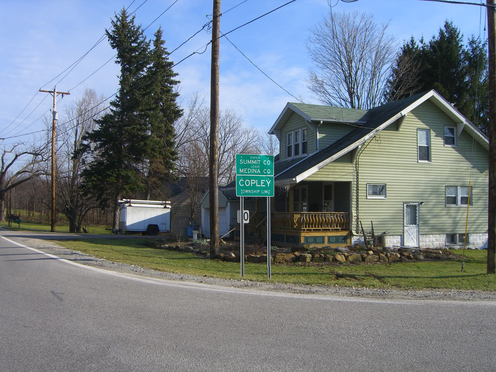 A typical scene on the western border of Copley Township.